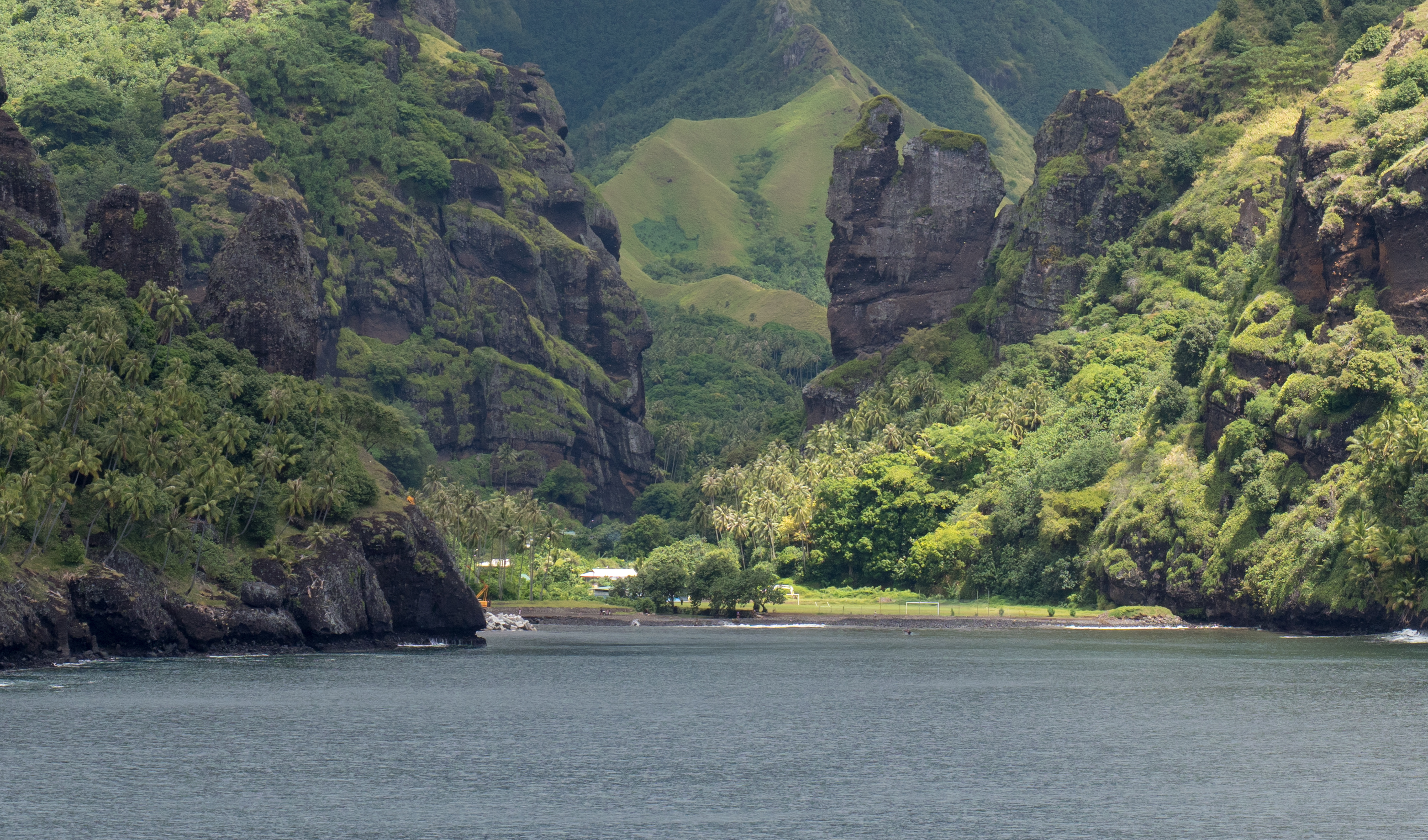 Fatu Hiva Marquesas Pacific, Baie des Vierges (Hanavave)